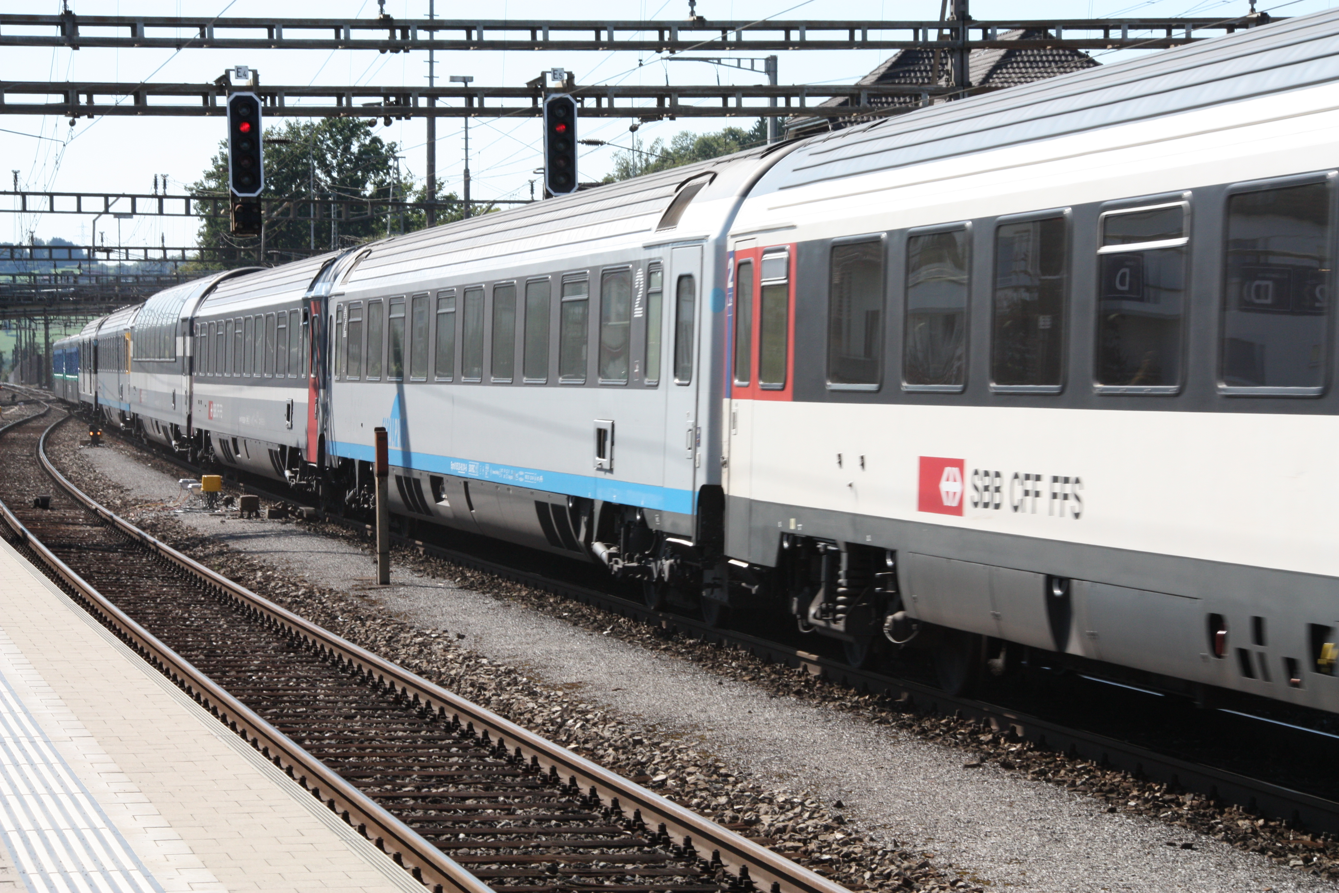 Rotkreuz train stationTrain with mixed coachesInterregio IR 2177 Basel SBB – Locarno(see File:Rotkreuz Re 460 with mixed coaches 3420.JPG for whole train)